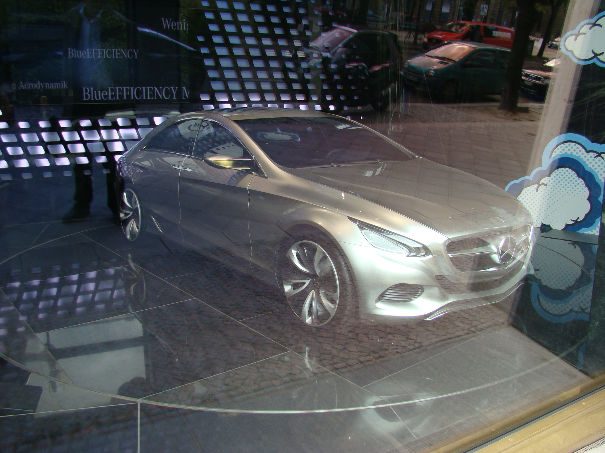 Mercedes-Benz F800